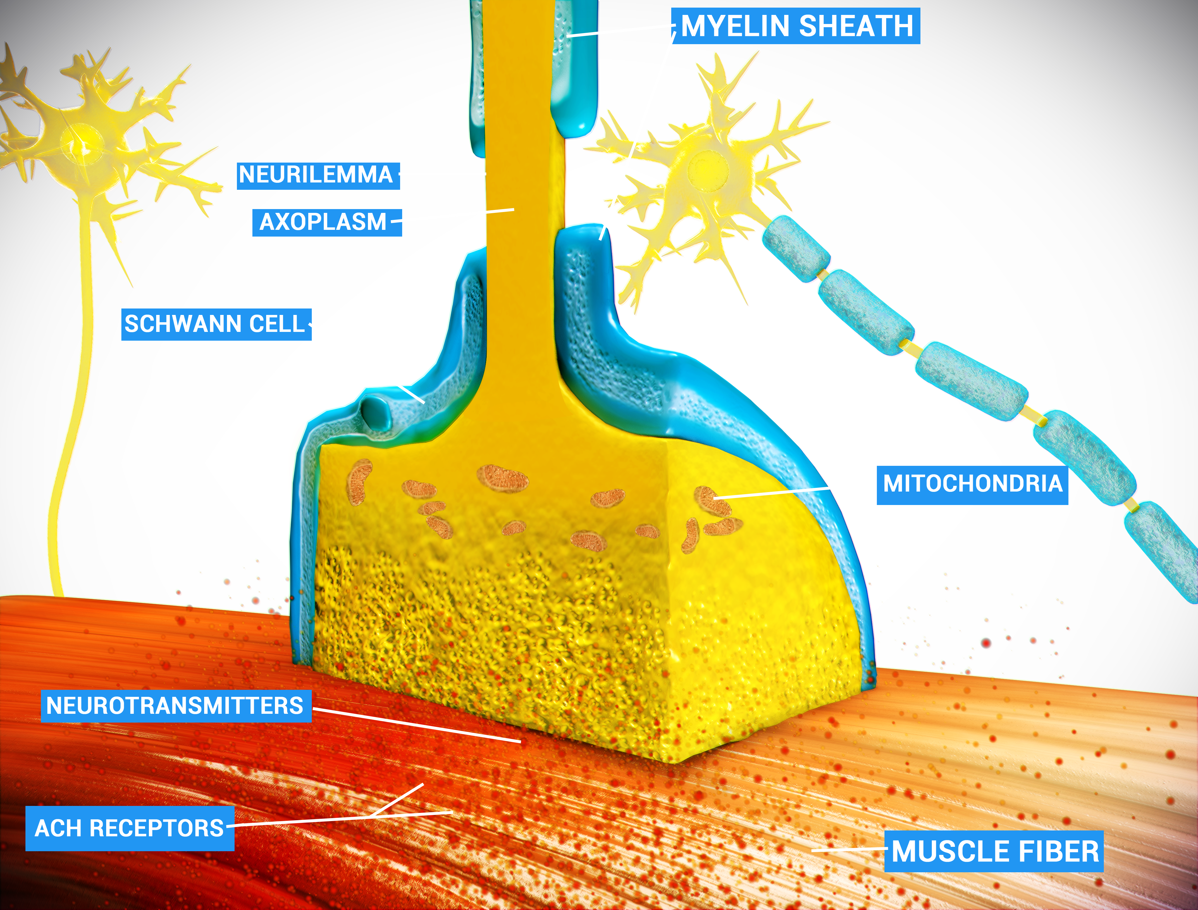 A neuromuscular junction (or myoneural junction) is a chemical synapse formed by the contact between a motor neuron and a muscle fiber. It is at the neuromuscular junction that a motor neuron is able to transmit a signal to the muscle fiber, causing muscle contraction.